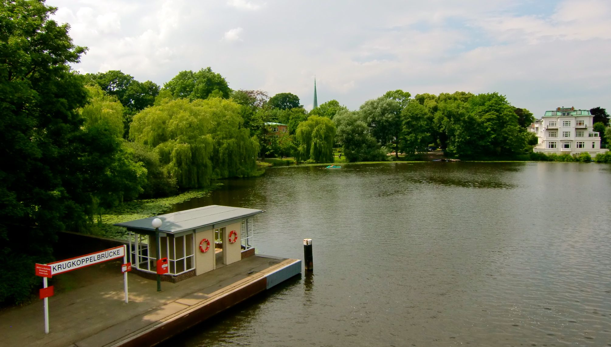 View of Krugkoppelbrücke, in Alster river, Hamburg.